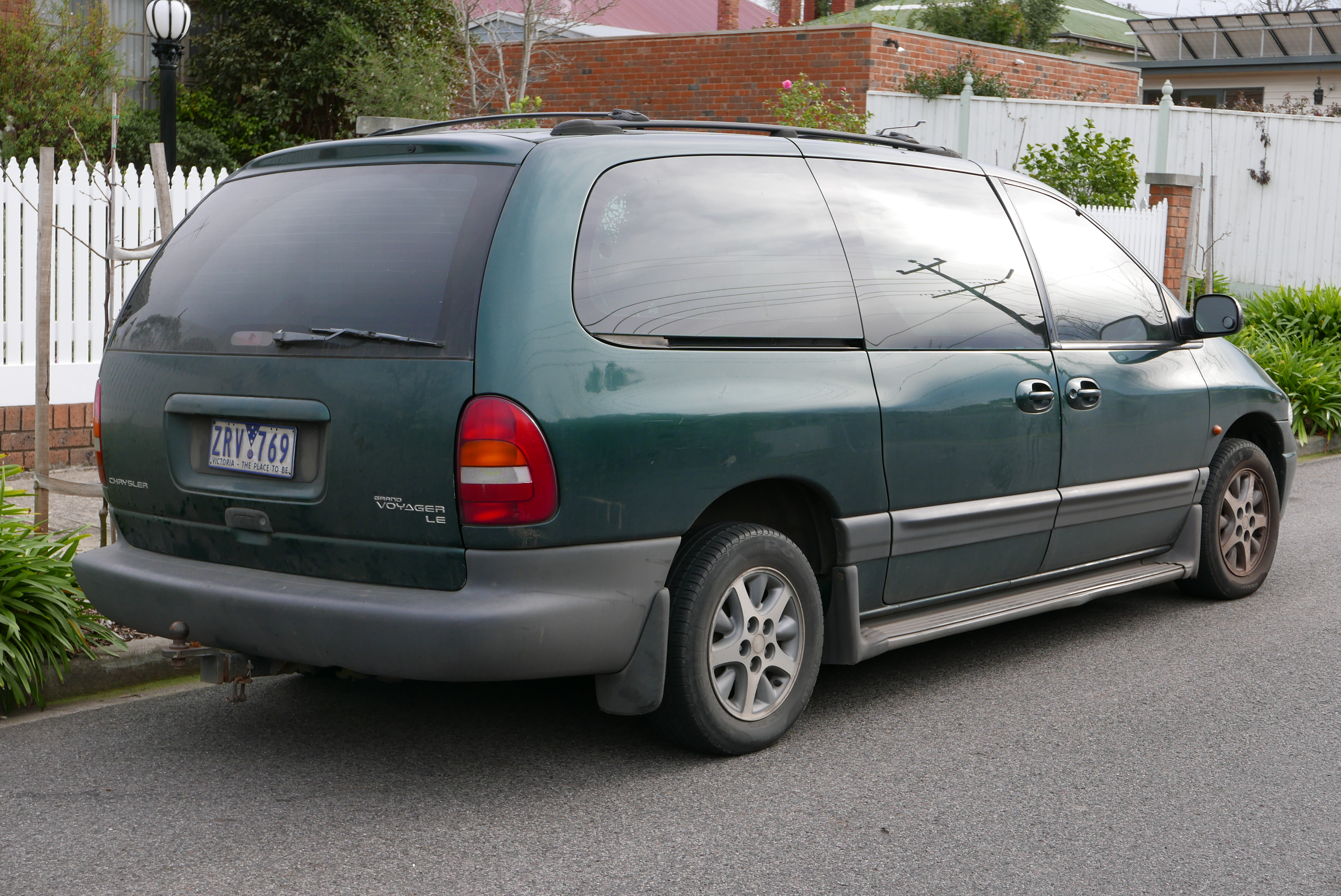 1998 Chrysler Grand Voyager (GH) LE van. Photographed in Ivanhoe, Victoria, Australia. Vehicle registration enquiry results Jurisdiction Victoria Registration ZRV769 Chassis code 1C4GHB4R0WU551669 Engine code WU551669 Compliance date 1998-09 Year of manufacture 1998